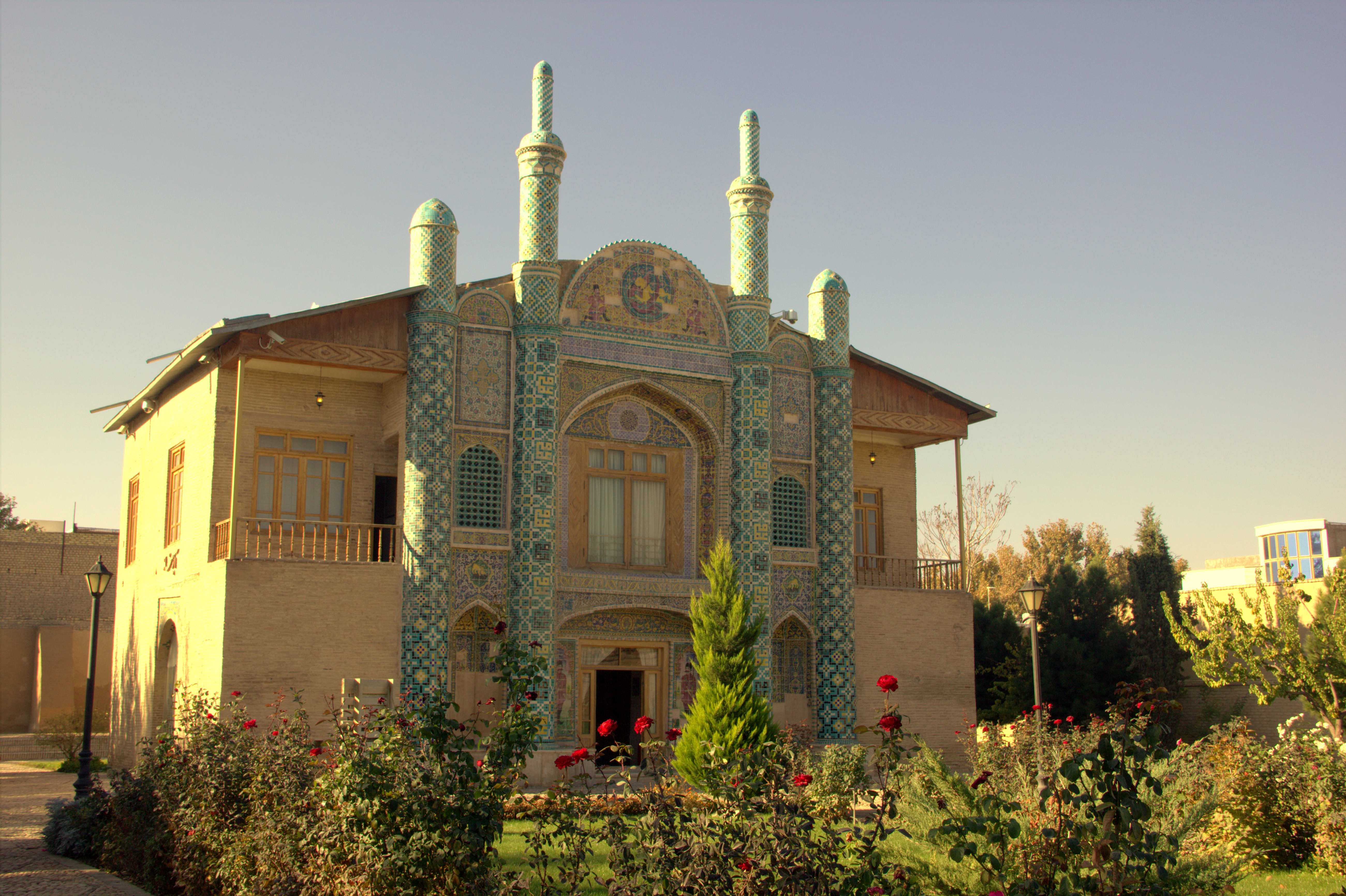 Mofakham Mirror House